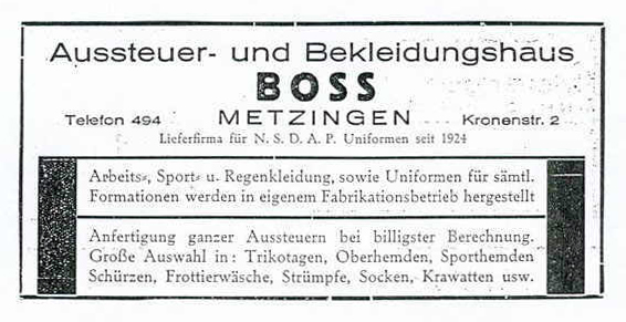 Advertisement by Hugo Boss company, claiming to be a supplier of Nazi uniforms since 1924.